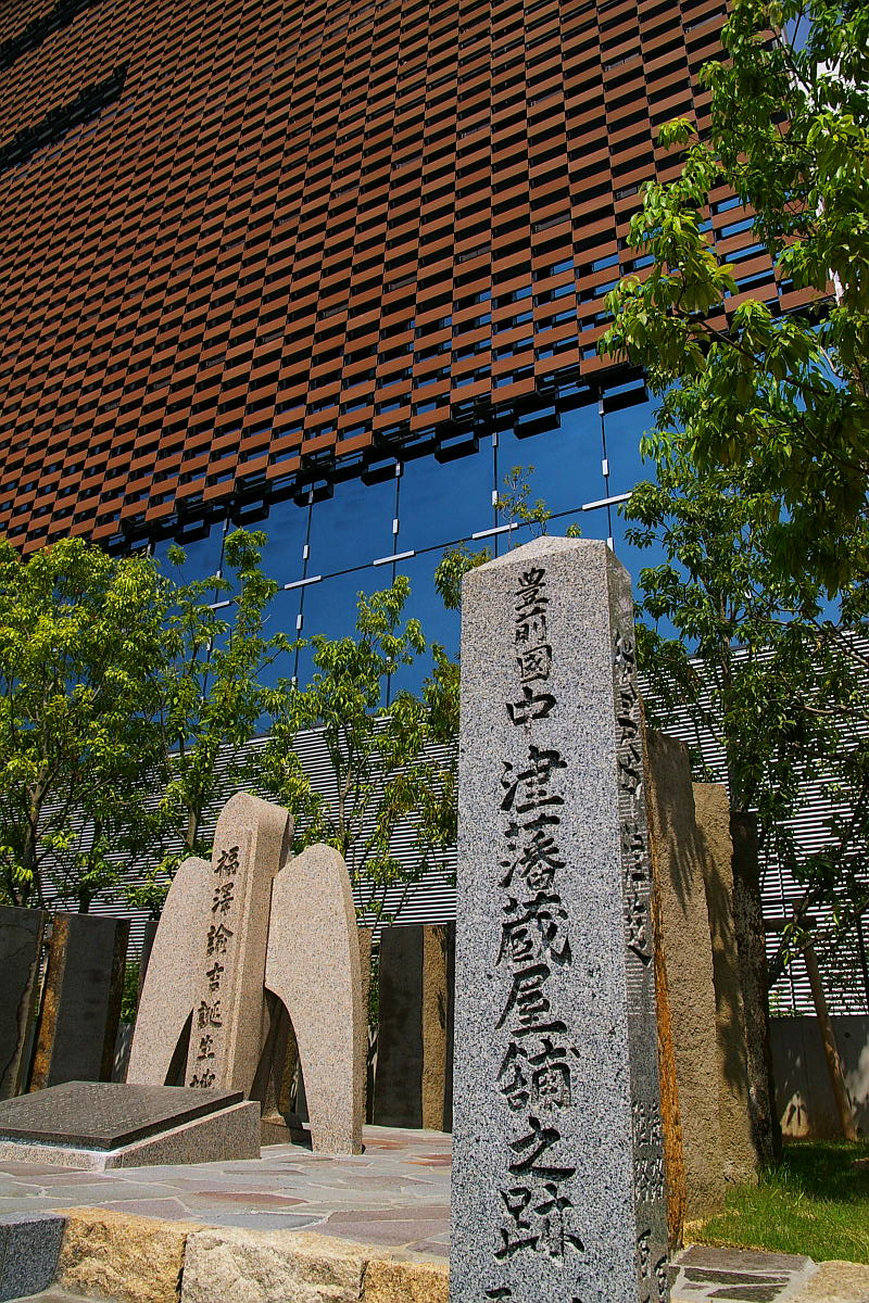 Monument of NAKATSU-Han warehouse and FUKUZAWA YUKICHI birthplace, at Hotarumachi, Fukushimaku, Osaka City, Japan.